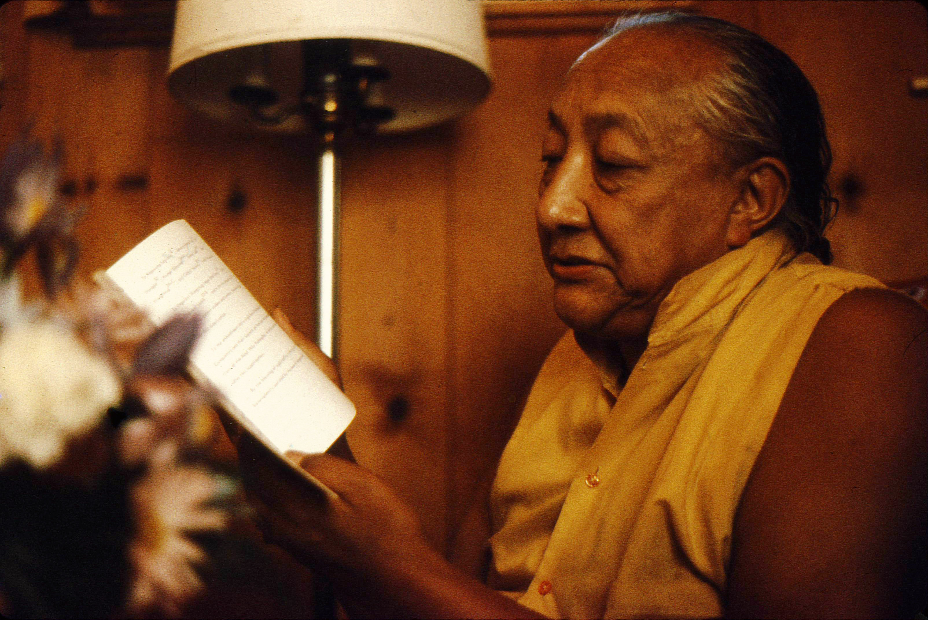 དིལ་མགོ་མཁྱེན་བརྩེ་ HH Dilgo Khyentse Rinpoche reading at Sakya Ward St Center Seattle Washington USA 1976